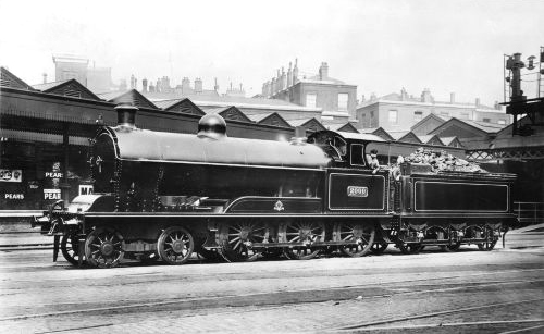 Photograph of LNWR engine No. 2000 19in Express Goods Class